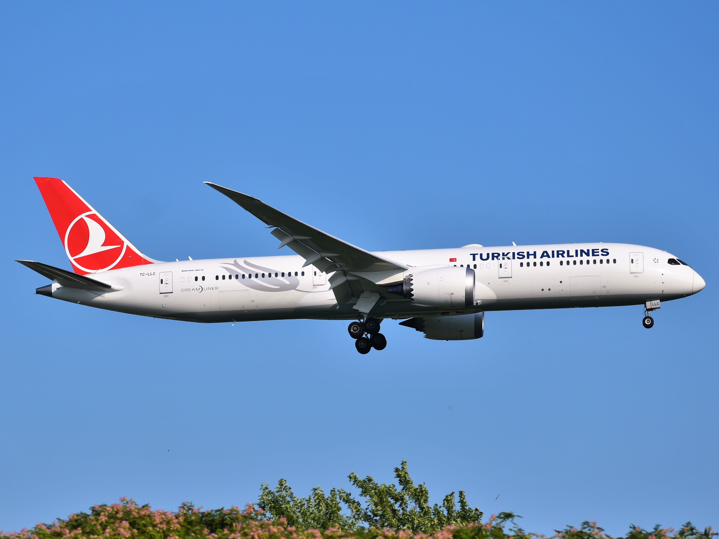 A Turkish Airlines Boeing 787-9 Dreamliner is on final approach to John F. Kennedy International Airport, arriving from Istanbul Airport as Flight TK1/THY1. This is also the first revenue flight of a Turkish Airlines Boeing 787-9 Dreamliner into the Americas.